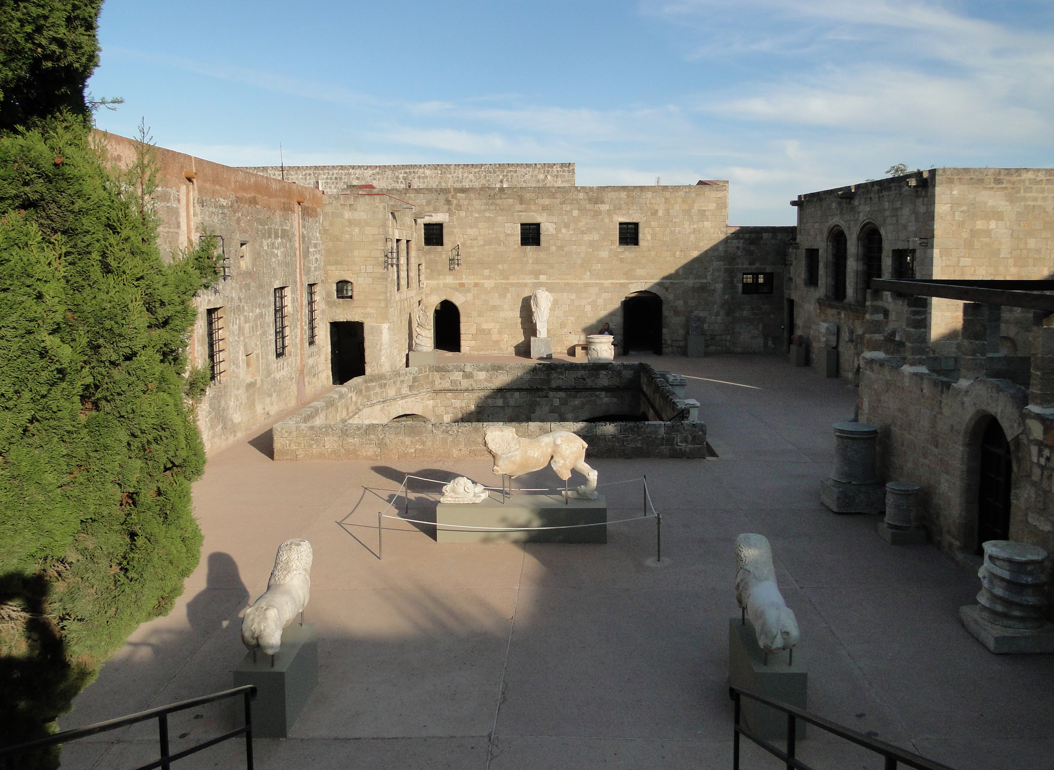 An interieur court in the Archaeological Museum of Rhodes, Greece